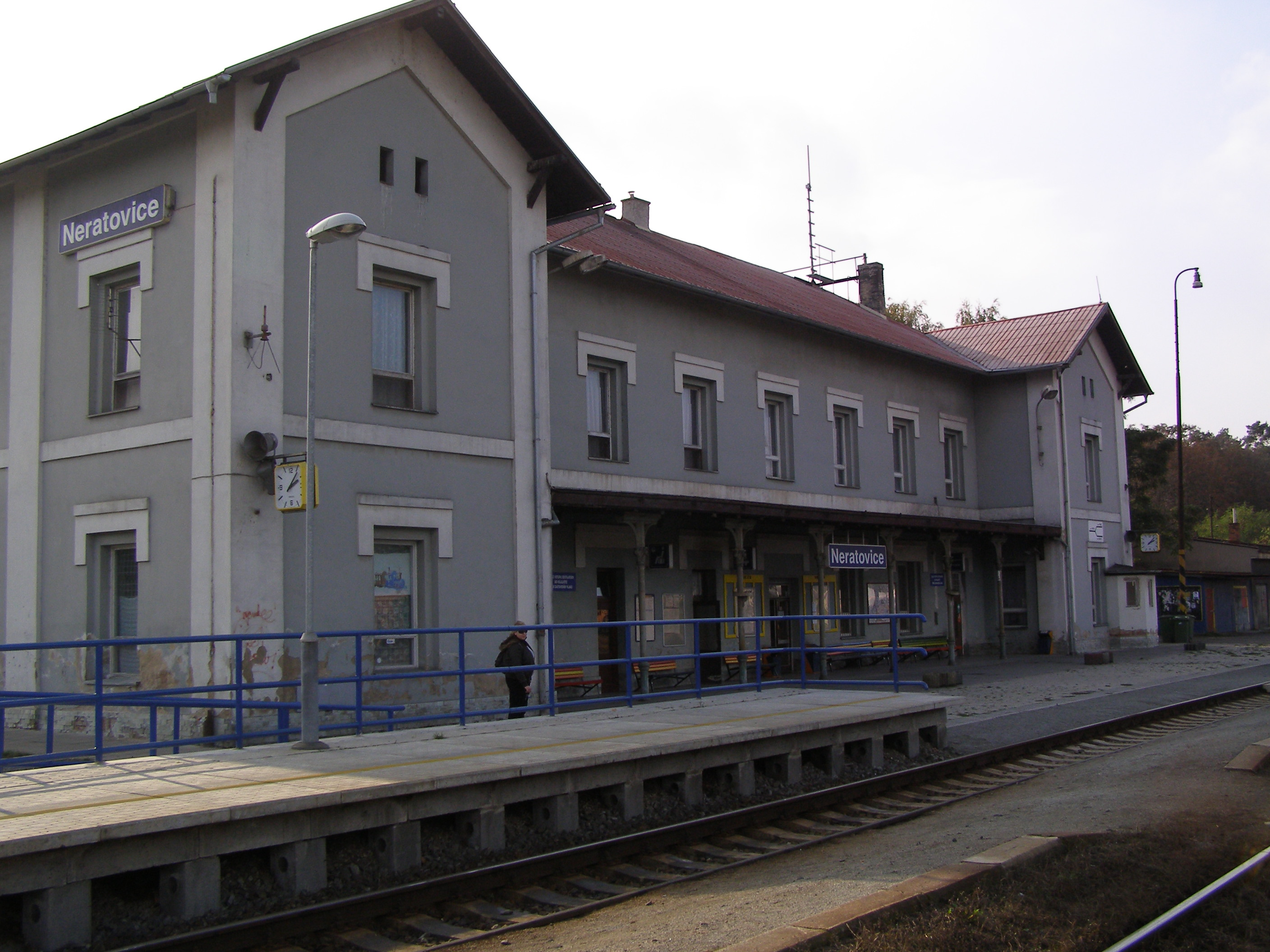 Neratovice - rail station